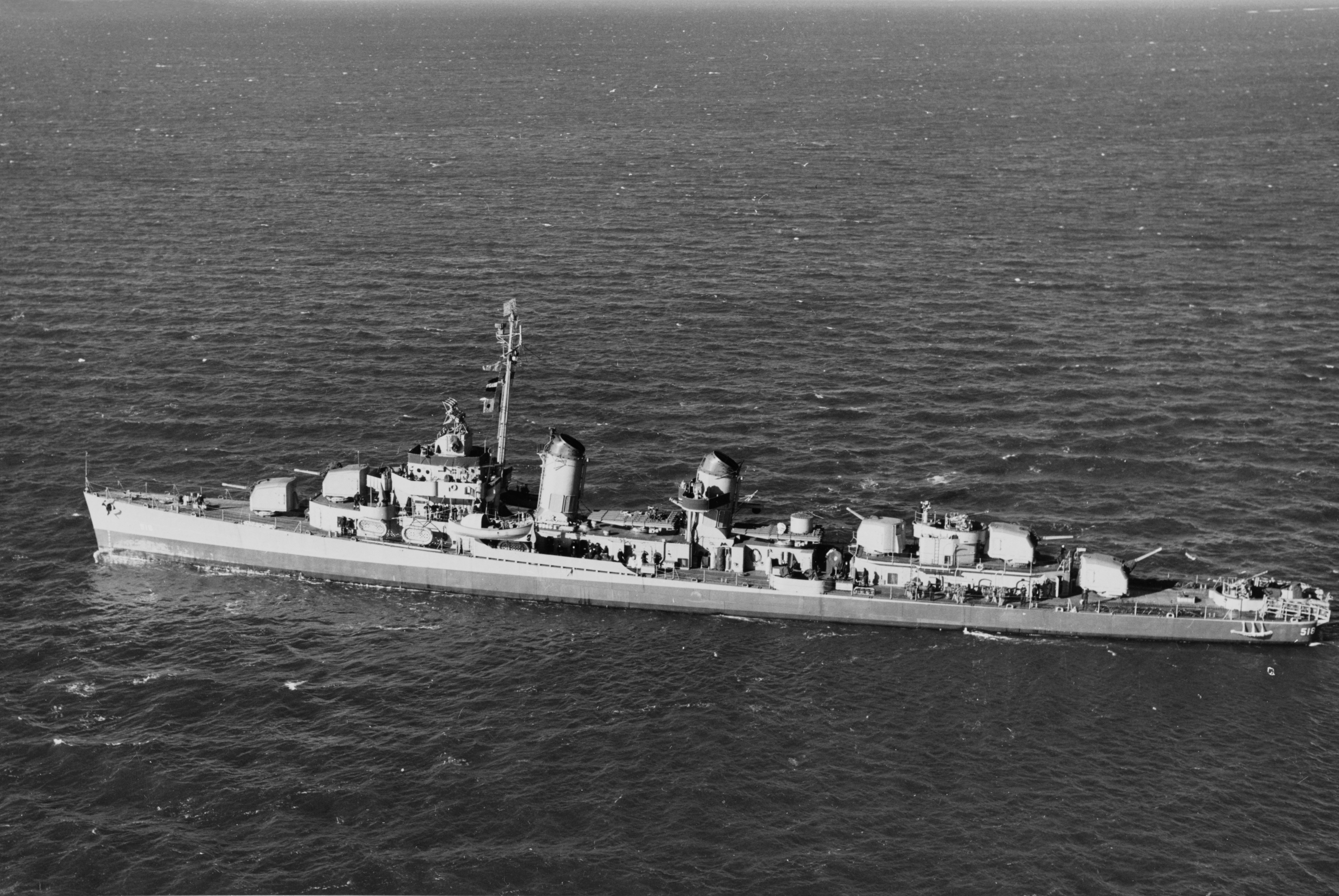 The U.S. Navy destroyer USS Brownson (DD-518) underway at sea, circa in early 1943.